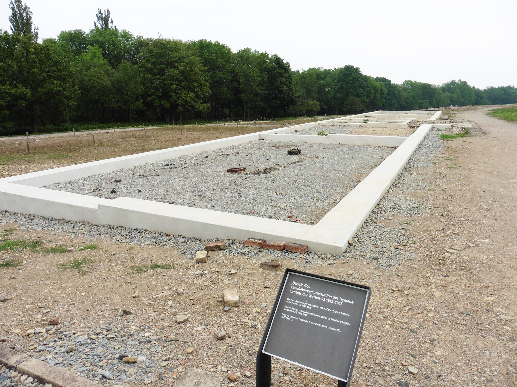 Foundation walls of block 46 in the Buchenwald Memorial seen from SW. Former typhus experimentation center of the Hygiene Institute of the Armed SS in the Buchenwald concentration camp 1942-1945